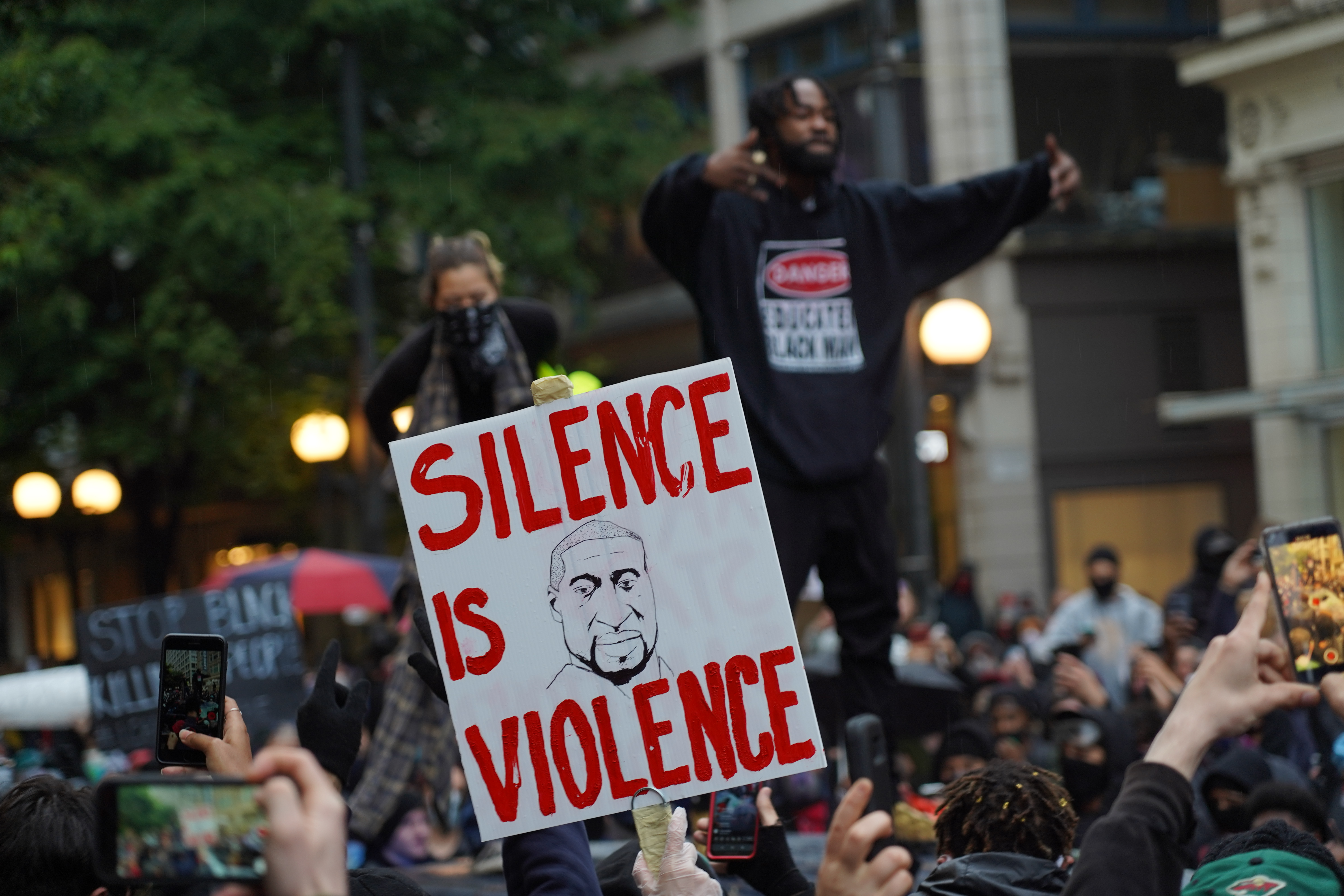 Protest on George Floyd's Death